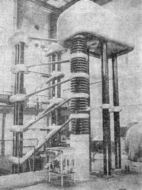 Cockcroft-Walton accelerator